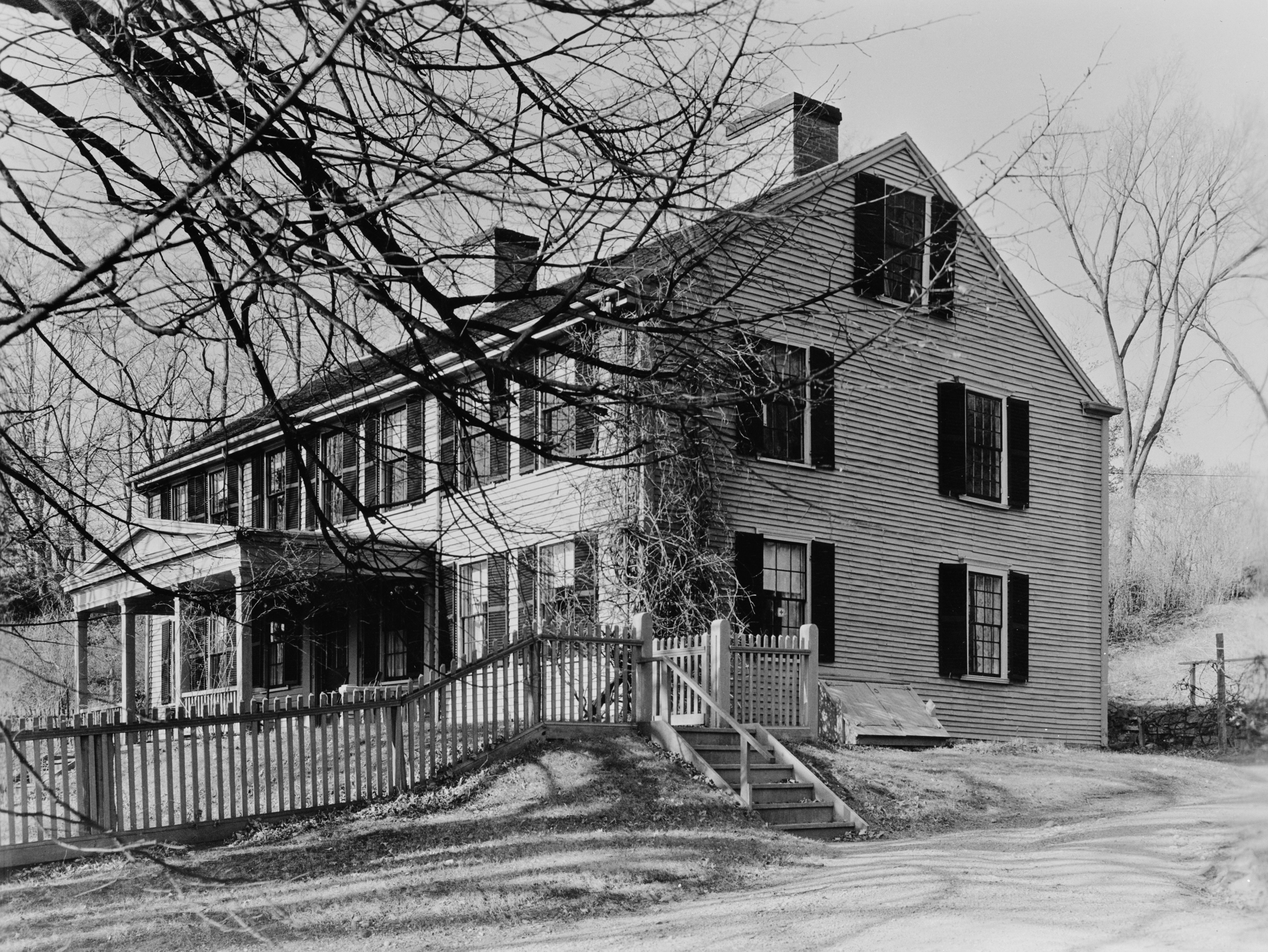 General Benjamin Lincoln House, Hingham, Plymouth County, MA.